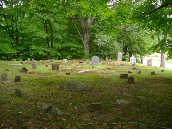 Gregory's Four Corner's Burial Ground, Trumbull, CT